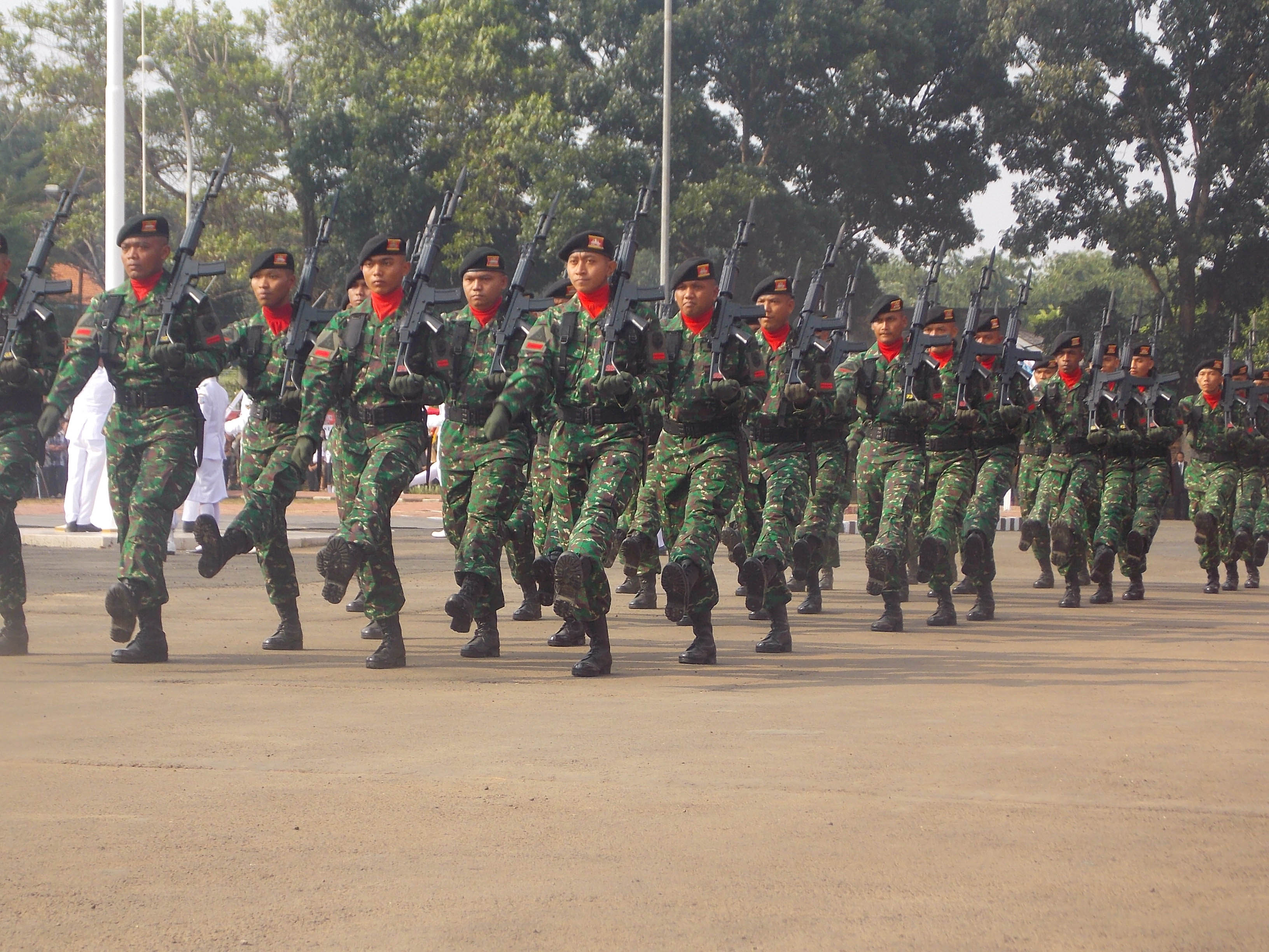 prajurit TNI AD sebagai pasukan 45 pada saat pengibaran bendera duplikat pusaka HUT RI